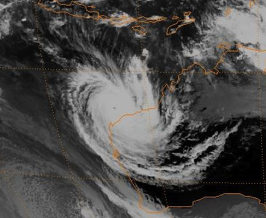 Satellite image of Cyclone Olivia at peak intensity on 10 April 1996